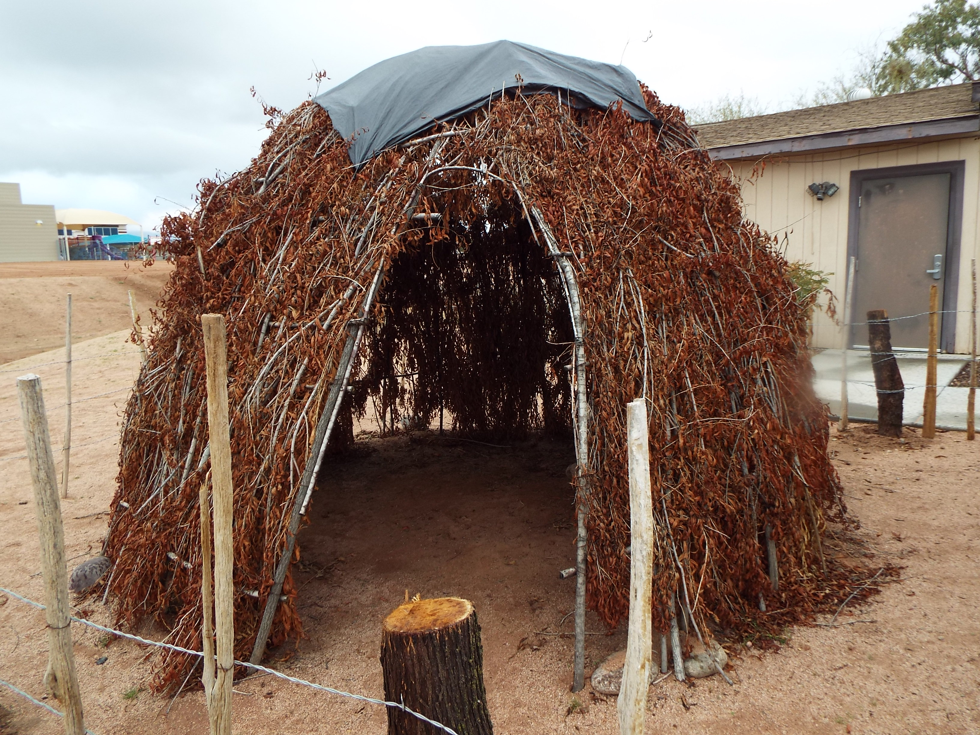 An early hut which served as a home of a Yavapai. It is located in N. Fort McDowell Road in the Fort McDowell Yavapai Nation of Arizona.